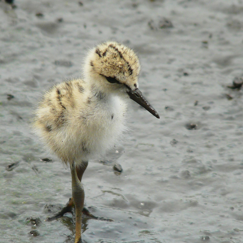 from Nature observation center , Yatsu tidal flat in Tokyo bay. four chicks are walking around and feeding sea worms , we can see them very closely through the window.